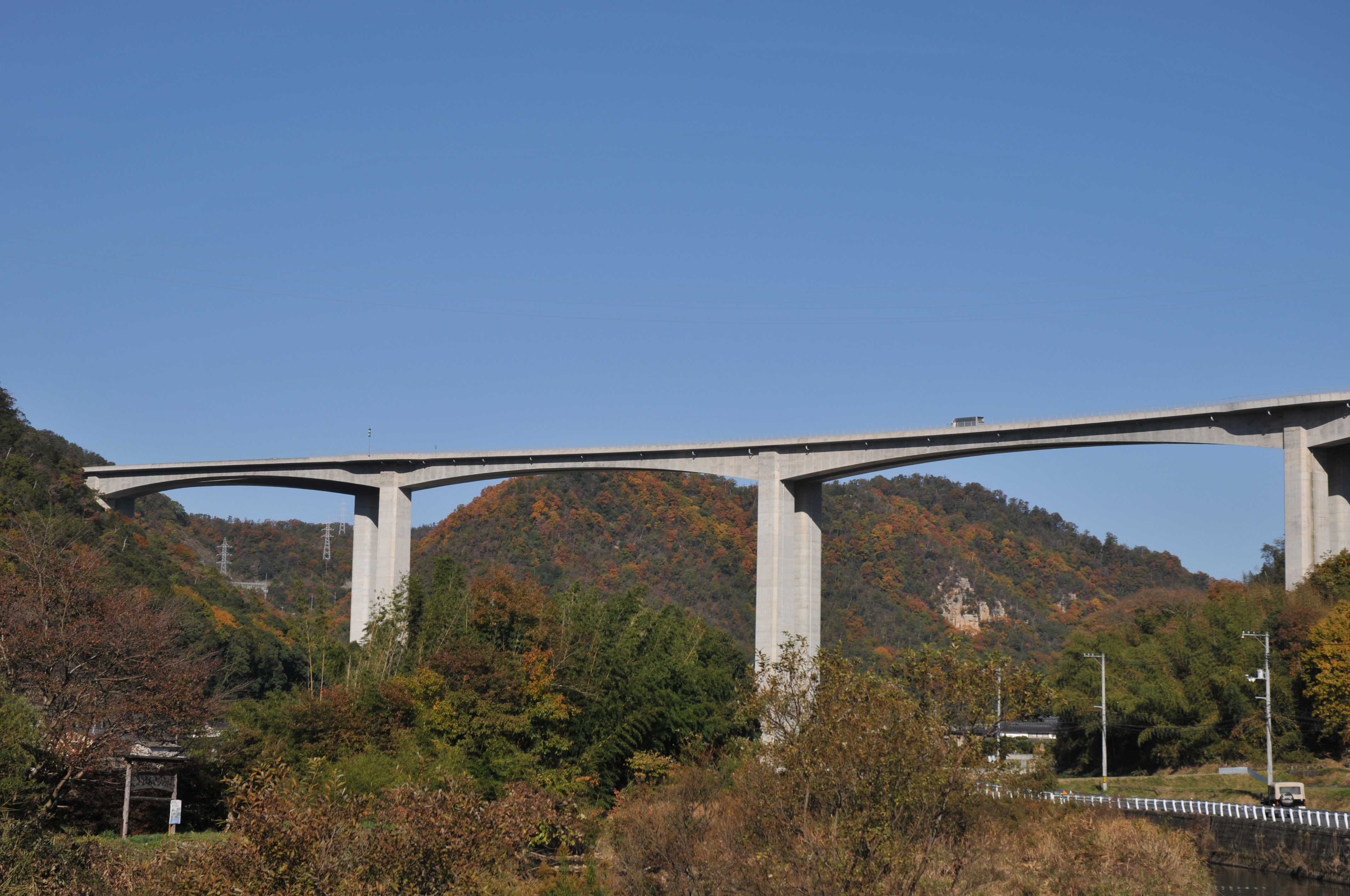 Minobe bridge of Okayama Expressway